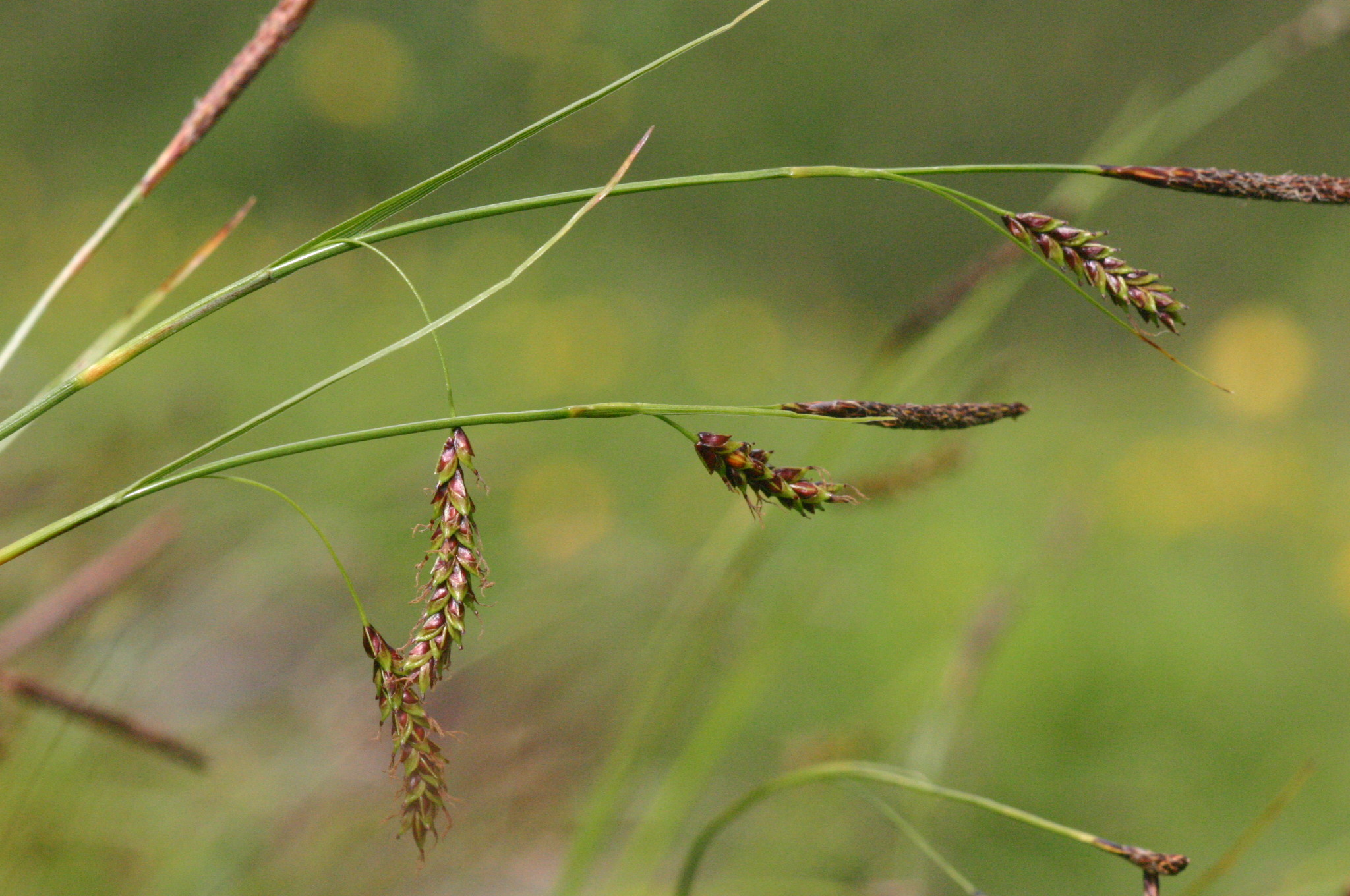 Carex ferruginea